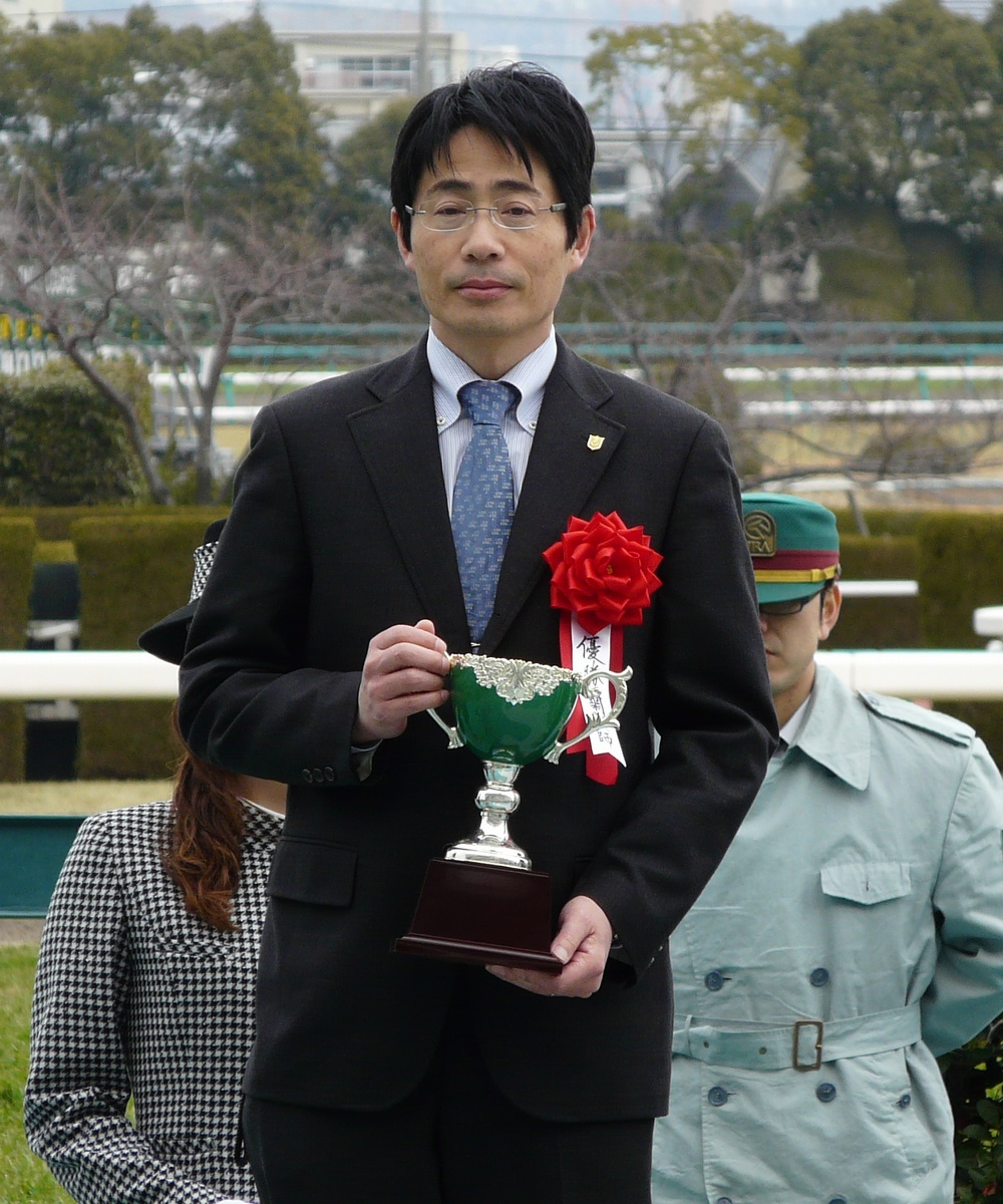 Hidemasa-Nakao20120226